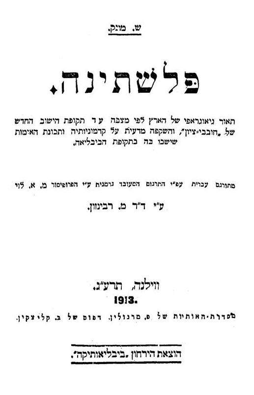 Title page of Palestine, by S. Munk. Vilna 1913.